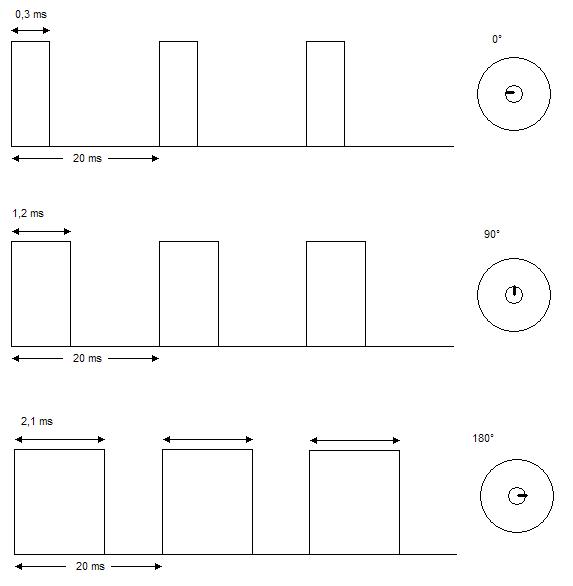 Diagram explaining the functioning of a servomotor